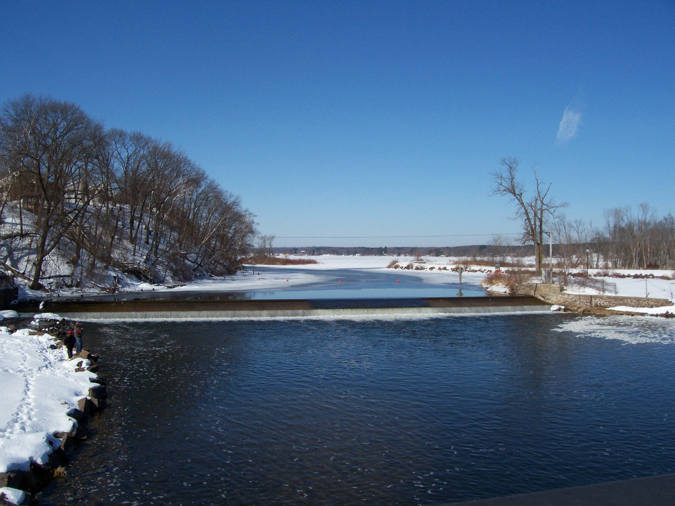 Looking west at the Fox River in Montello, Wisconsin, USA. Buffalo Lake is visible in the distance. Taken March 11, 2007 by myself.